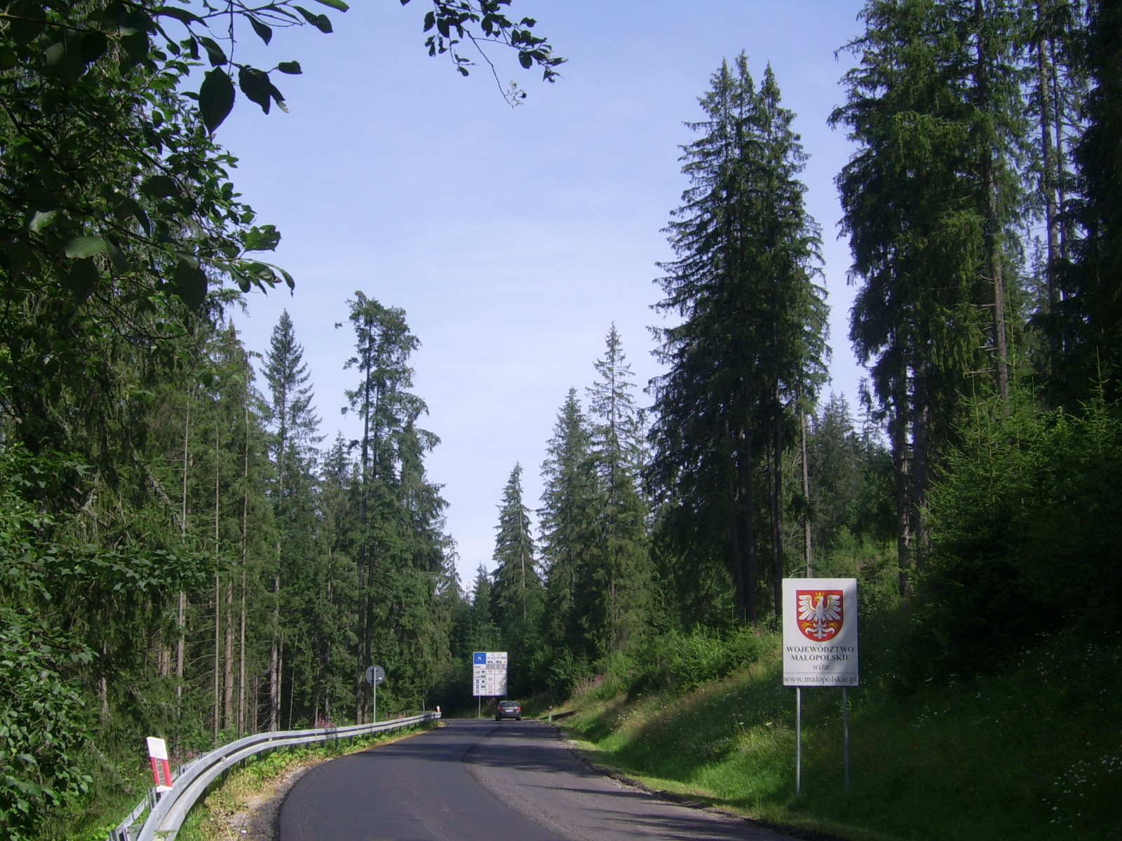 Border between Slovakia and Poland near Jurgów, Poland